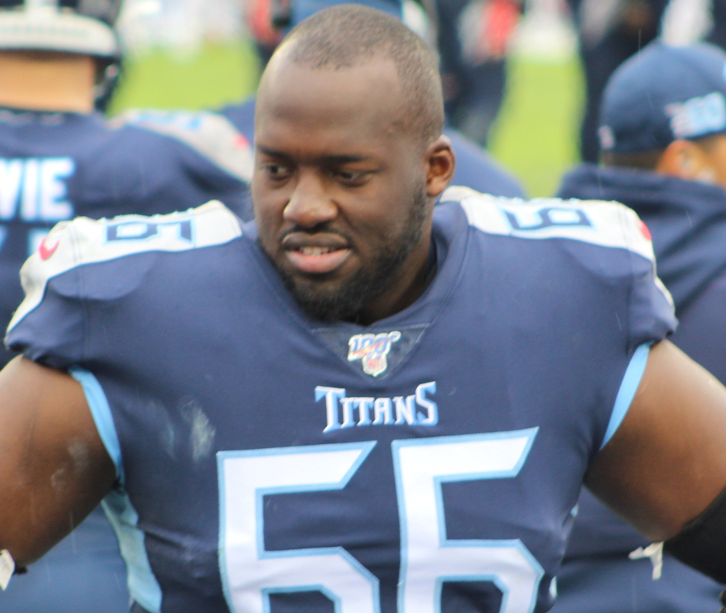 Pamphile with the Titans on December 22, 2019